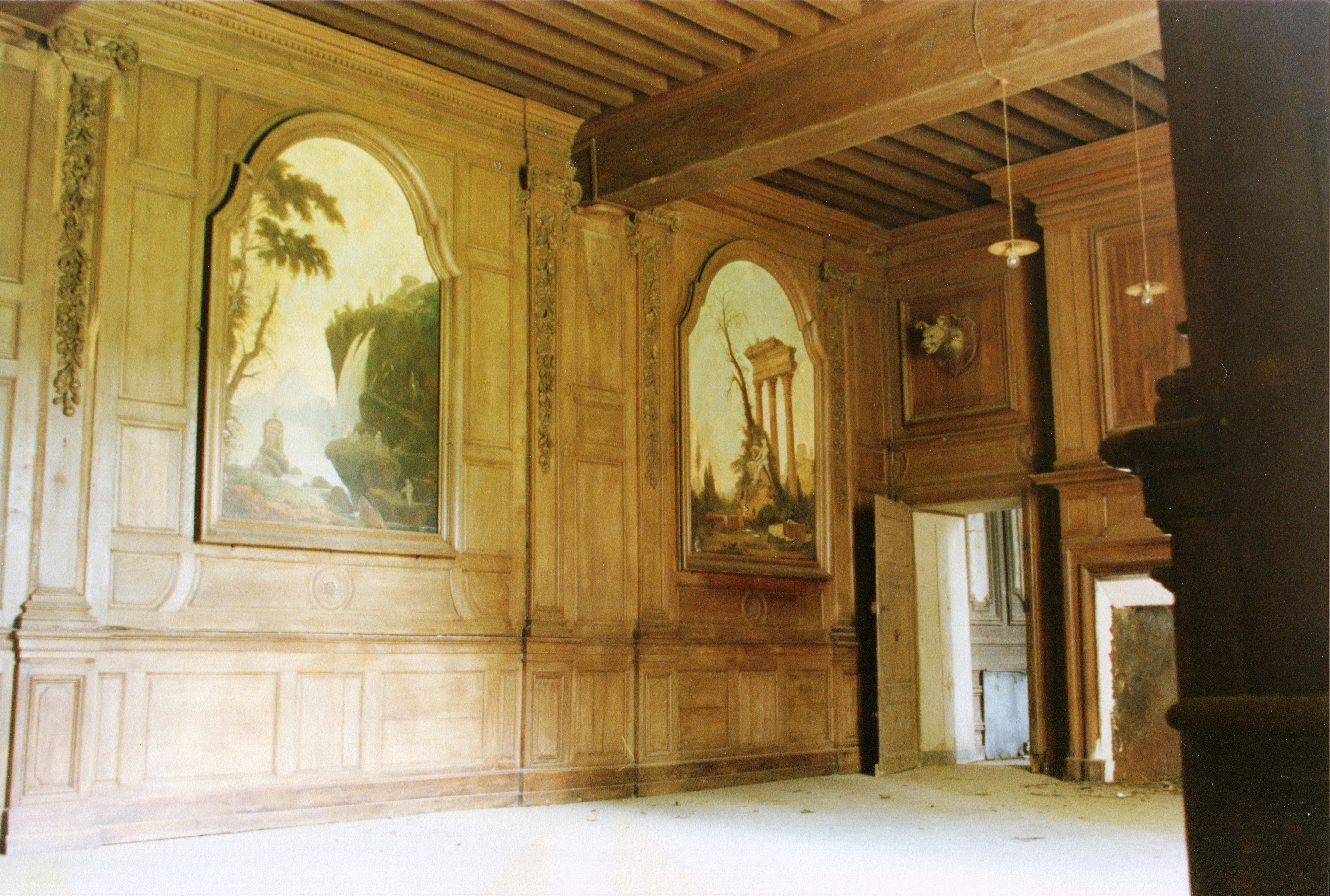 L'ancienne Abbaye de Loroy en 1987, salle à manger décoré. L'abbaye est un des bâtiments présumés d'être "Le domaine mystérieux" dans le livre "Le Grand Meaulnes" d'Alain Fournier.